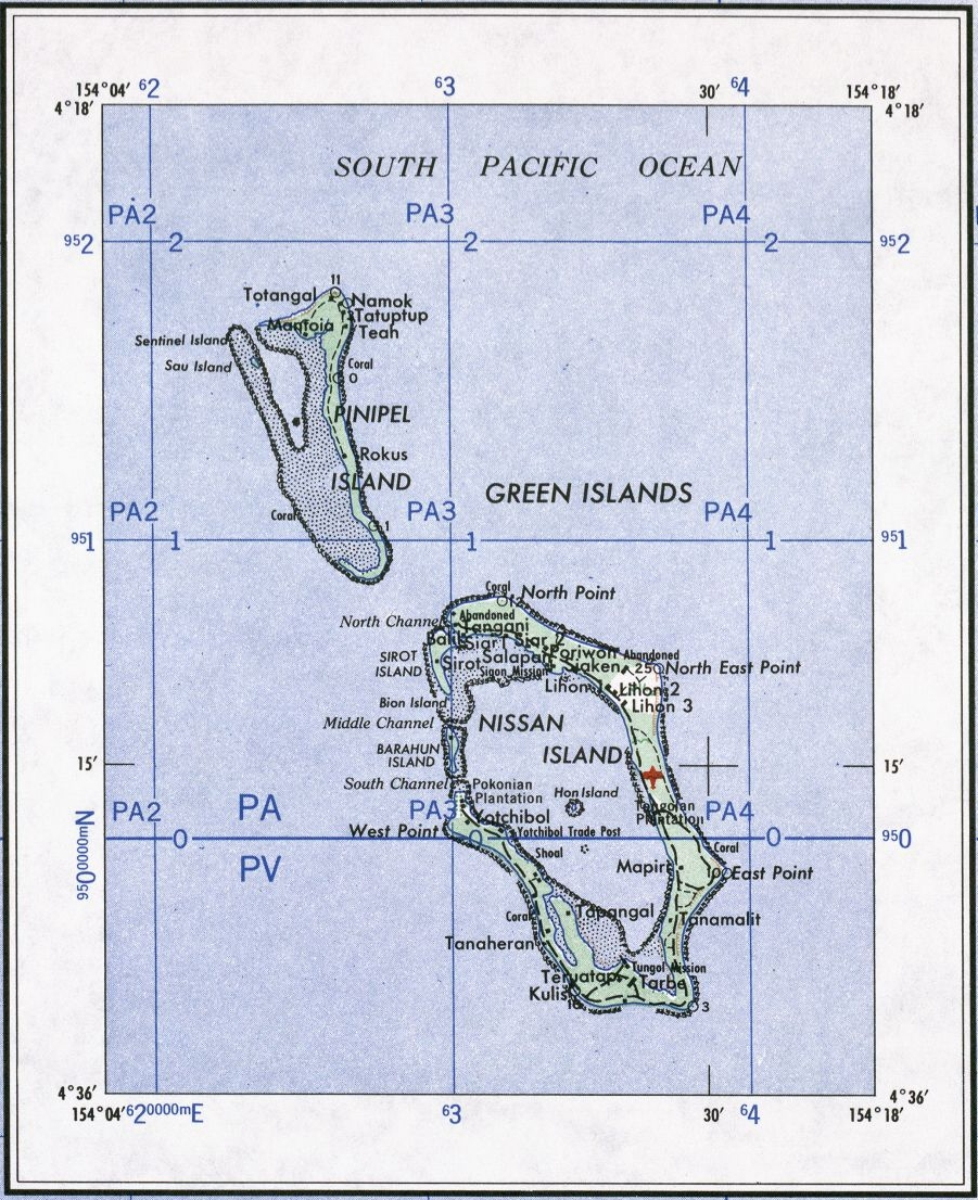 map sheet 1:250,000 SB56-3 (Papua New Guinea) showing southern New Ireland, most of Feni Islands (Ambitle, Babase), inset of Green Islands (with Nissan Atoll)